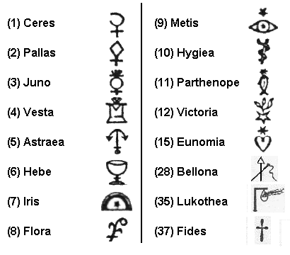 Graphic symbols of first asteroids to 1852.